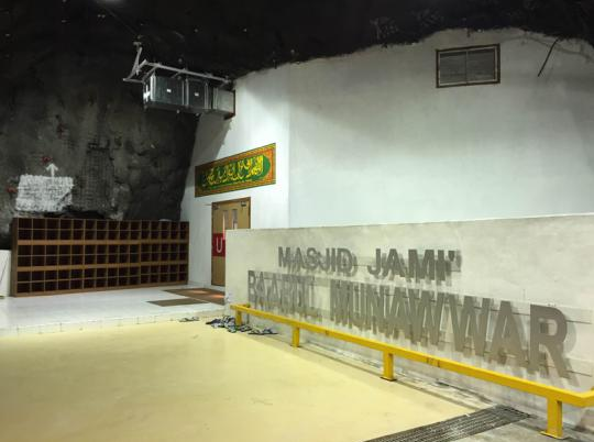 masjid baabul munawwar